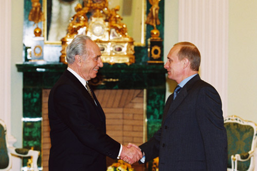 THE KREMLIN, MOSCOW. President Putin met with Israeli Foreign Minister Shimon Peres.